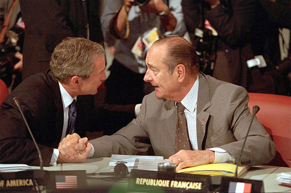 President Bush and President Chirac of France talk over issues during the G-8 sessions, July 21, 2001. White House photo by Paul Morse.